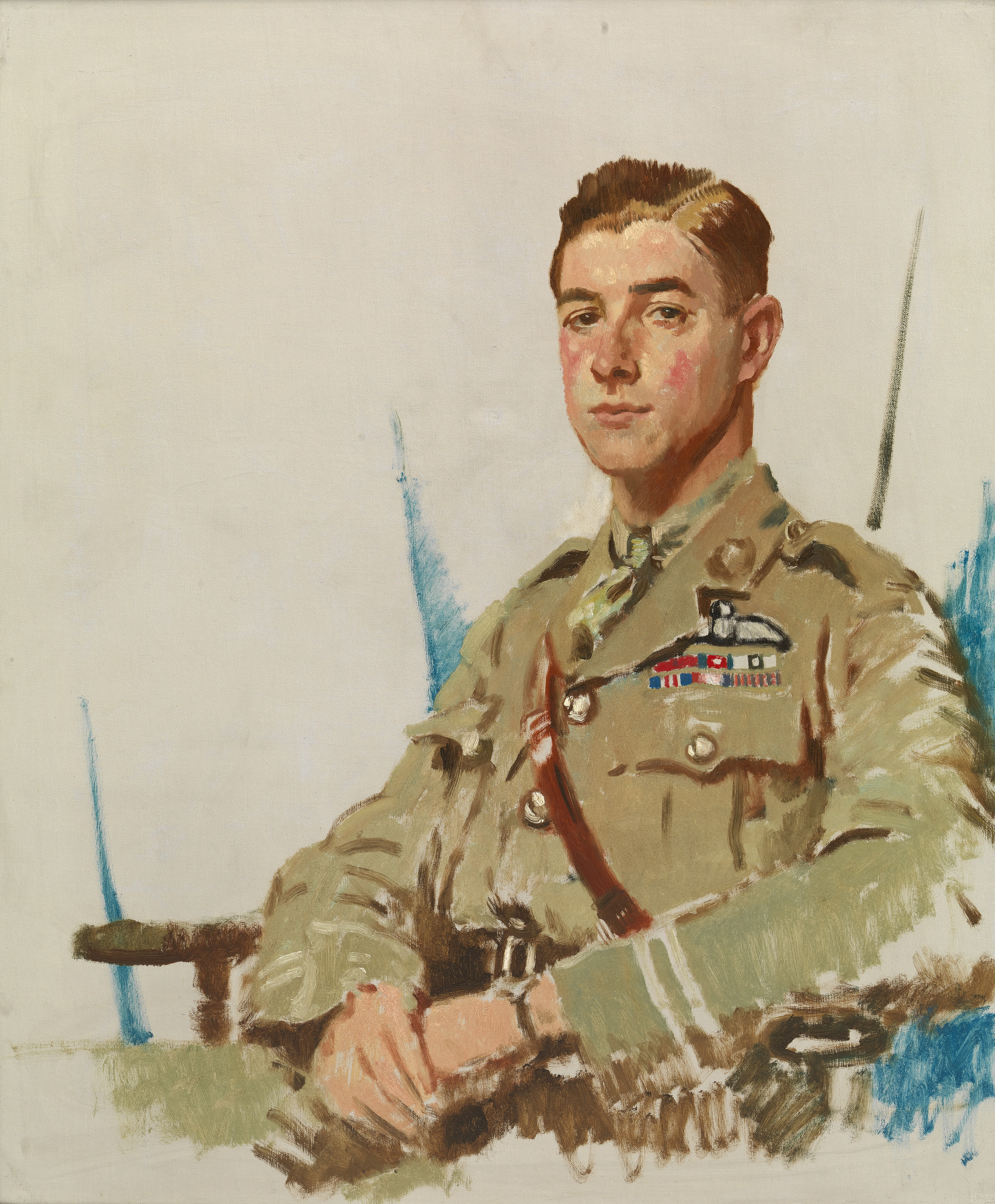 Portrait by William Orpen of James McCudden VC, a English flying ace in the First World War. Oil painting on canvas. Height 914 mm, Width 762 mm